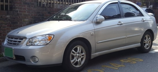 kia cerato